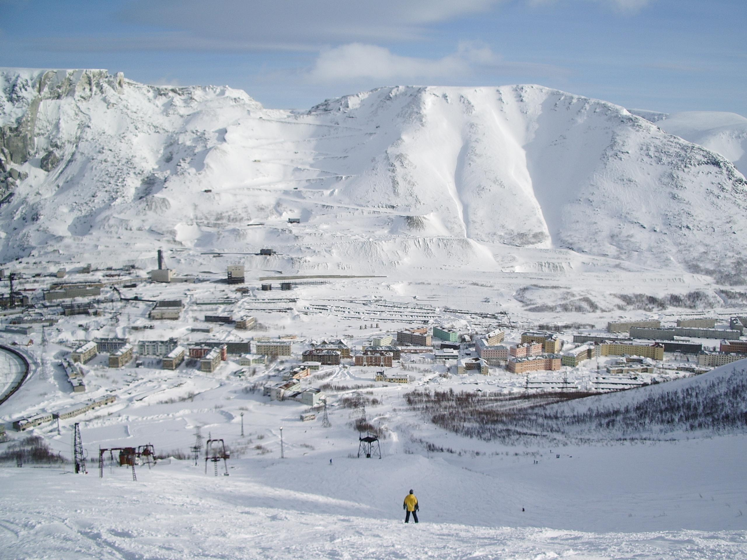 View of the 25th Kilometer village from Kukisvumchorr mount